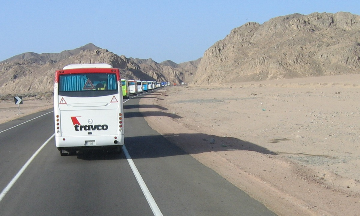 Bus convoy to Luxor in Egypt